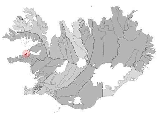 Based on Municipalities of Iceland.png.